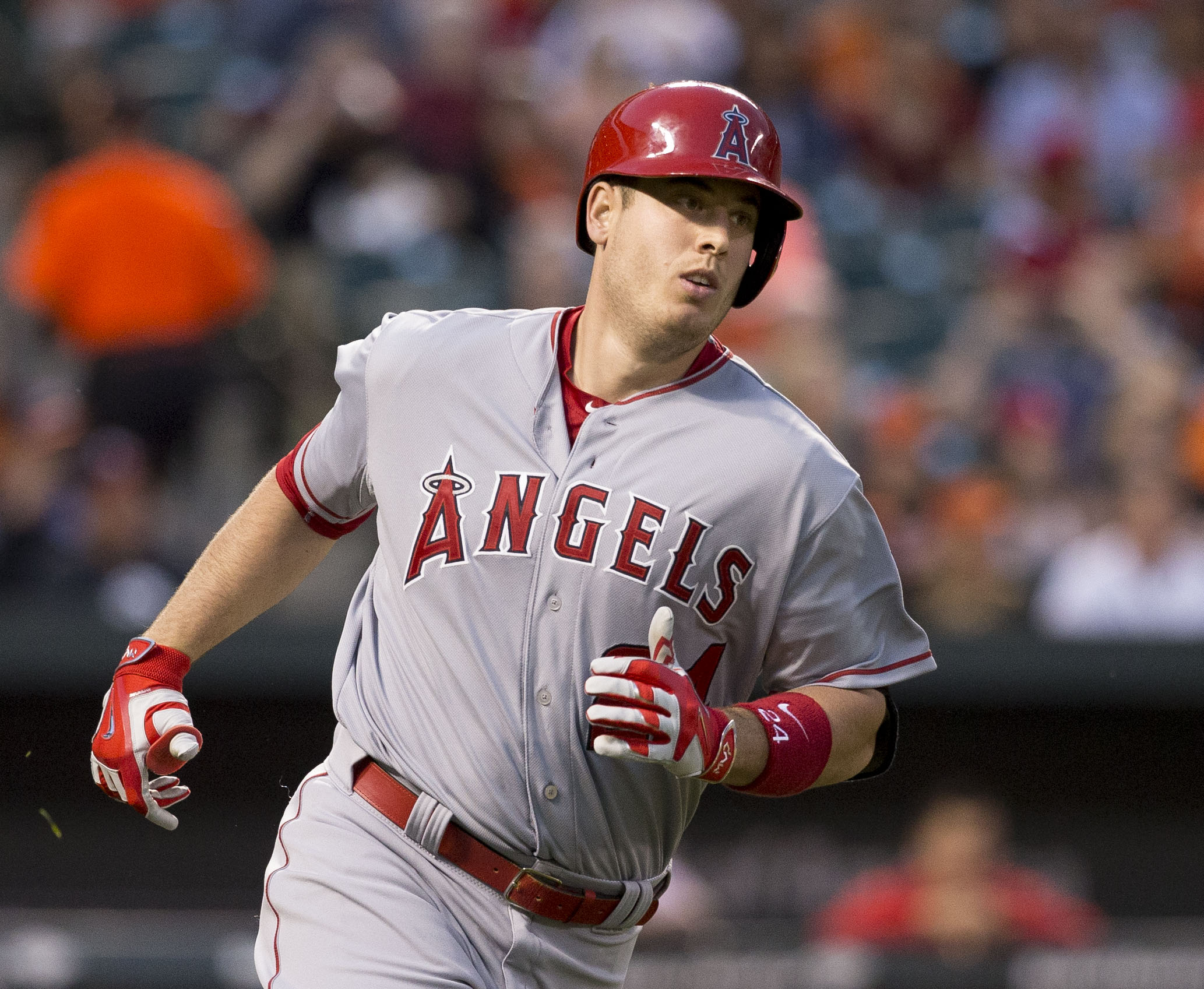 C. J. Cron